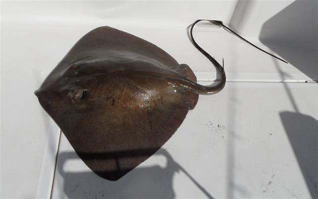 Dasyatis centroura caught in Gran Canaria, Canary islands, Spain.